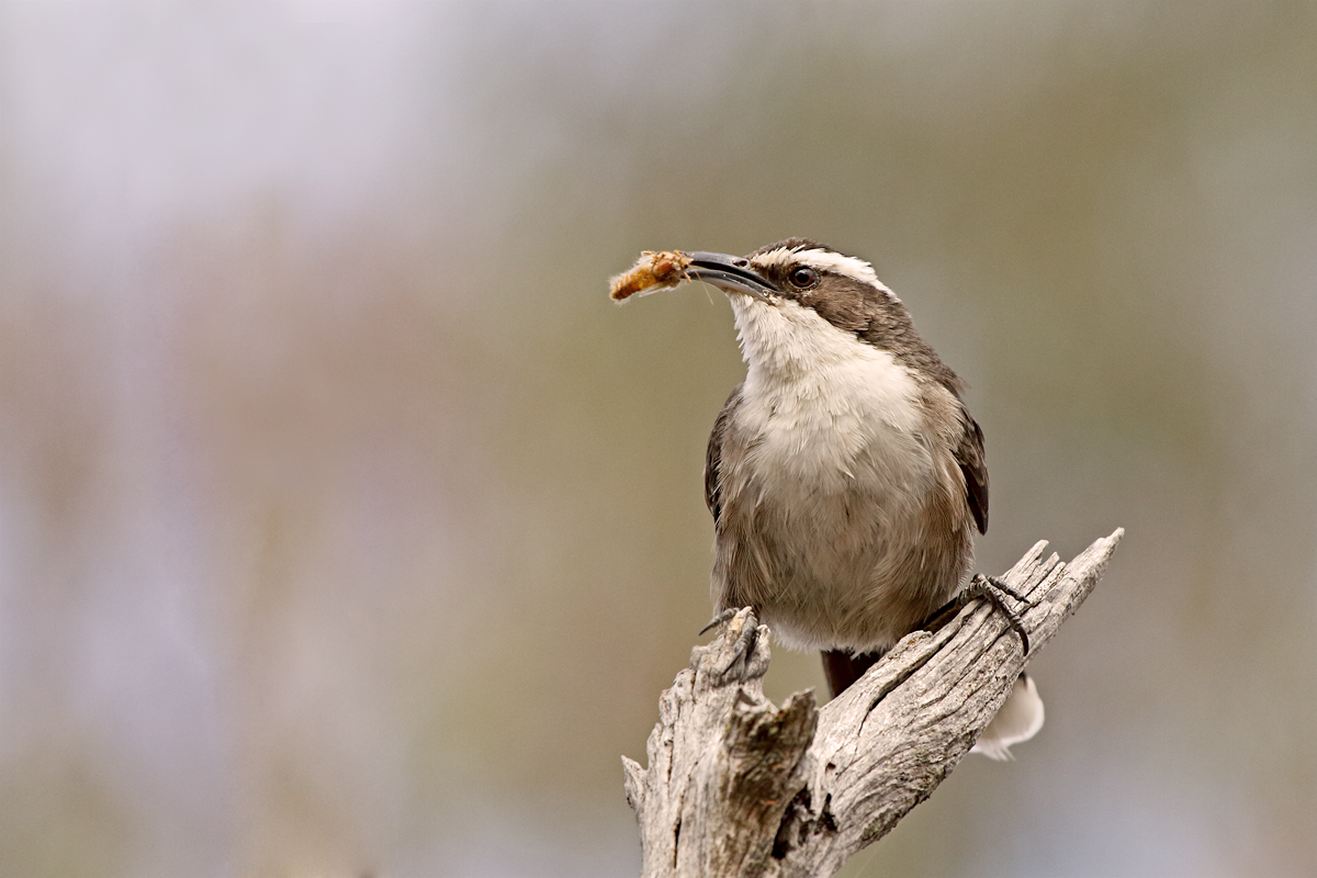 Muckleford Forest, Vic.